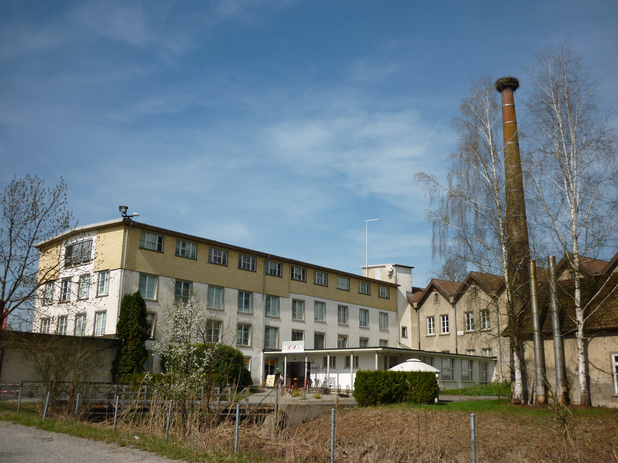 Seidenweberei Haas, Hauptgebäude, Ottenbach ZH, Schweiz